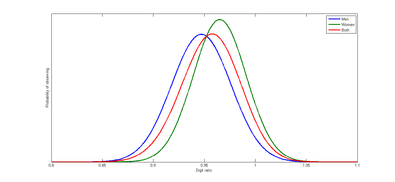 This is a visualization of two normally distributed sets of digit ratios based on the parameters given in as well as a combination of them to represent both pools. I created this image in Matlab using the following commands: x = 0.8:0.001:1.1; m = normpdf(x, 0.947, 0.029)/1000; w = normpdf(x, 0.965, 0.026)/1000; plot(x,m,x,w,x,(m+w)/2, 'LineWidth', 2.5); set(gca, 'YTick', ); axis([0.8 1.1 0 0.016]); legend('Men', 'Women', 'Both'); xlabel('Digit ratio'); ylabel('Probability of observing'); As the author of this image, I release it into the Public Domain.